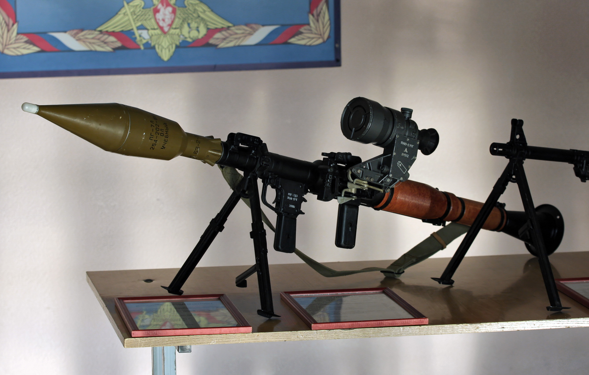 RPG-7D3 is the airborne variant of RPG-7V2 (with 1PN93-2 RPG night vision scope)